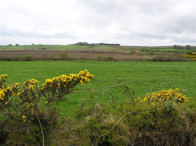 Creggan Townland. Looking southwards